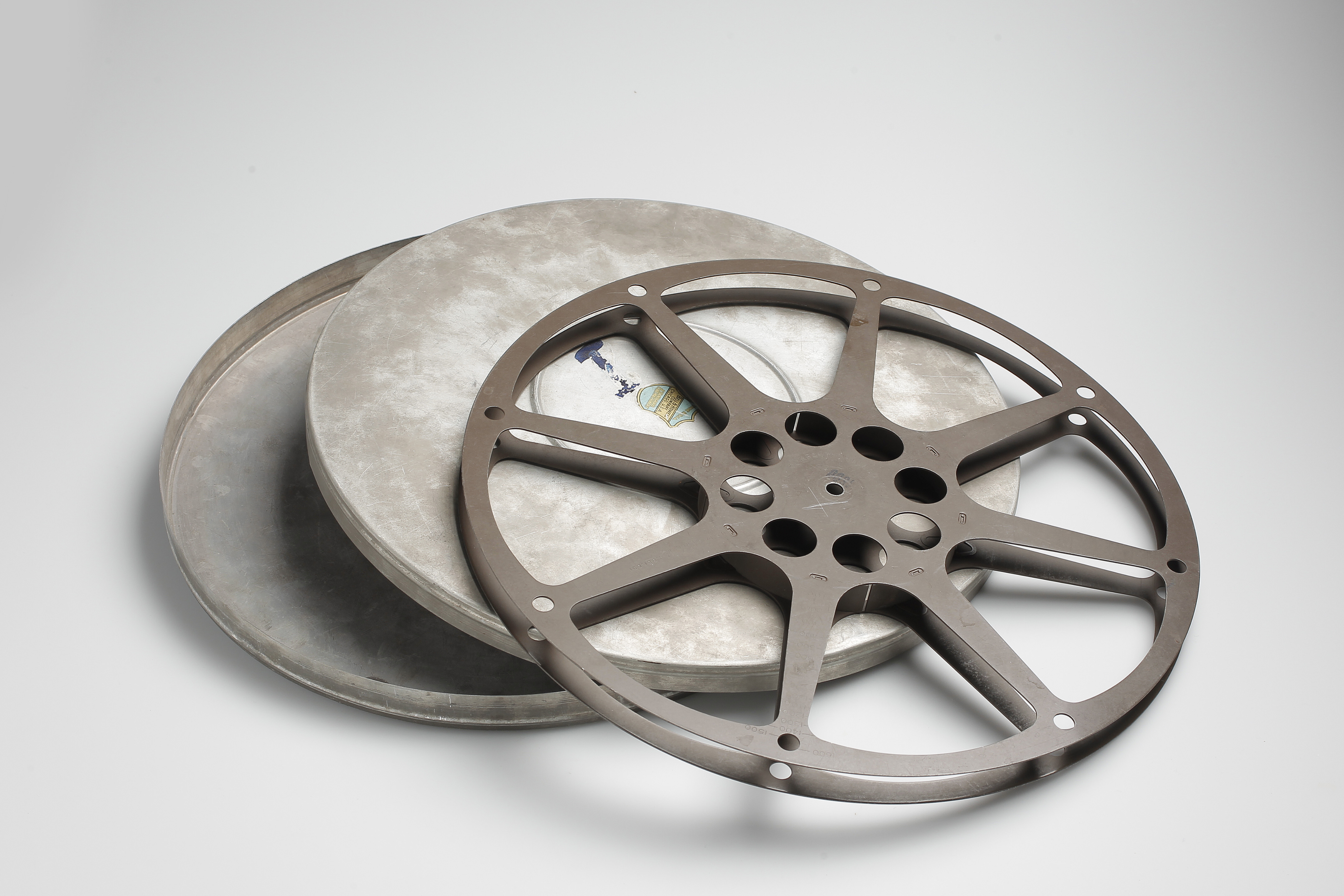 Danmarks Radios arkiv af DRs Kulturarvsprojekt / The archive of the Danish Broadcasting Corporation Photos must be credited "DRs Kulturarvsprojekt"